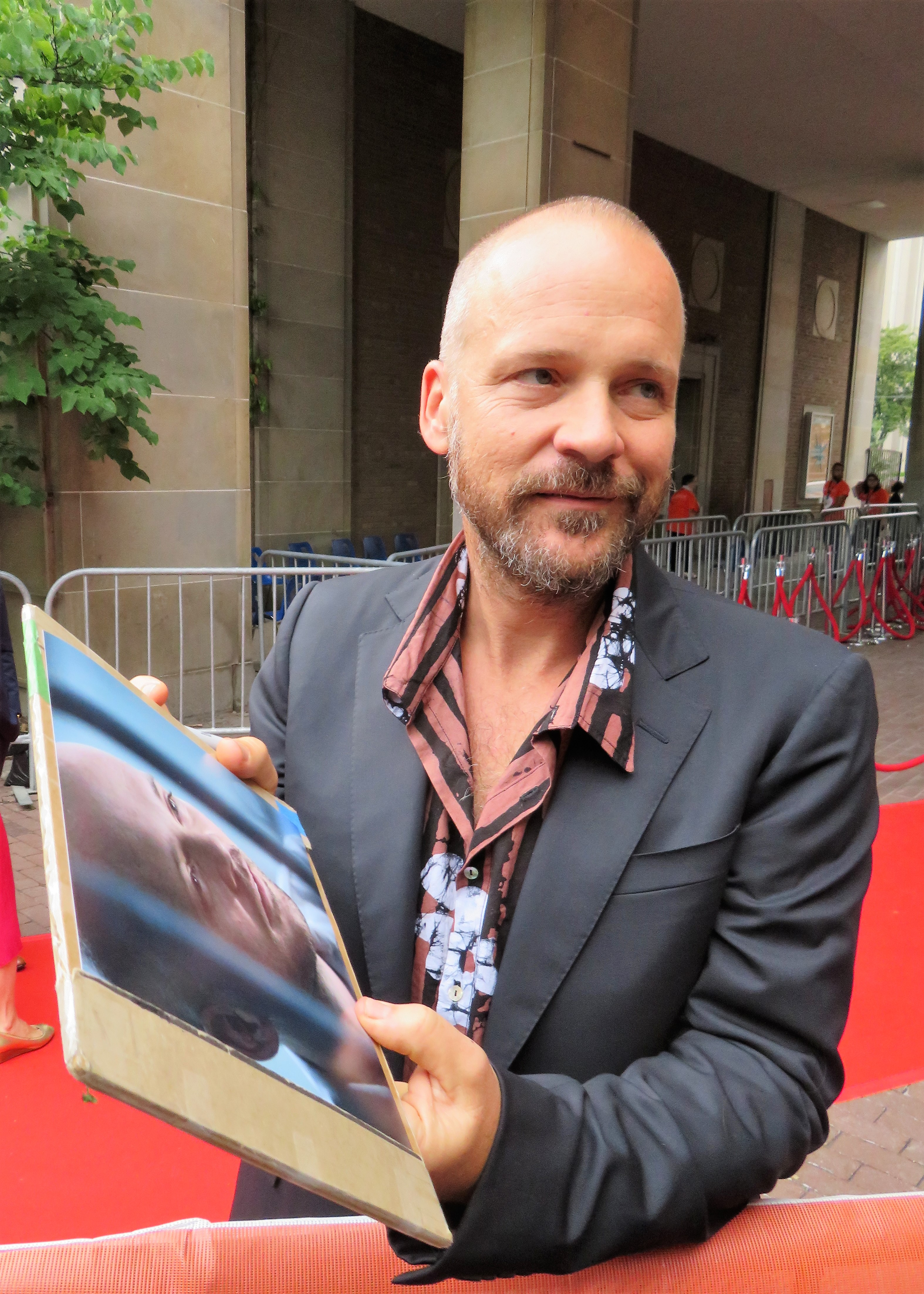 Peter Sarsgaard at the premiere of Human Capital, 2019 Toronto Film Festival